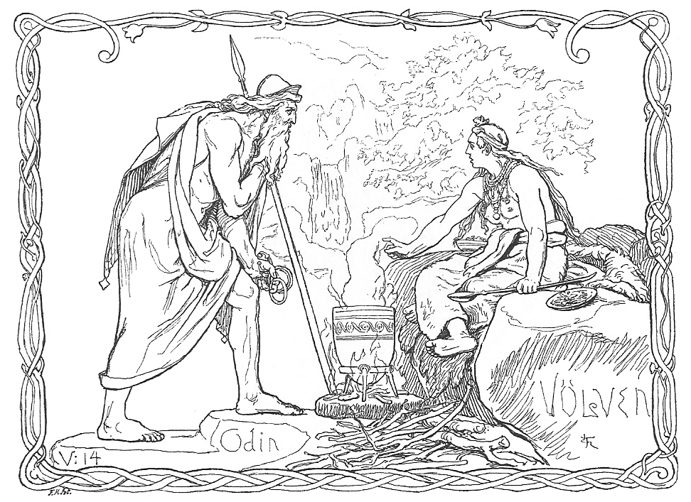 Odin holds bracelets and leans on his spear while looking towards the völva in Völuspá. Gesturing, the völva holds a spoon and sits beside a steaming kettle. The text "V:14" in the bottom left corner refers to Völuspá stanza 14.